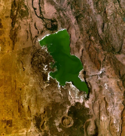 Satellite image of Lake Elmenteita, in Kenya.